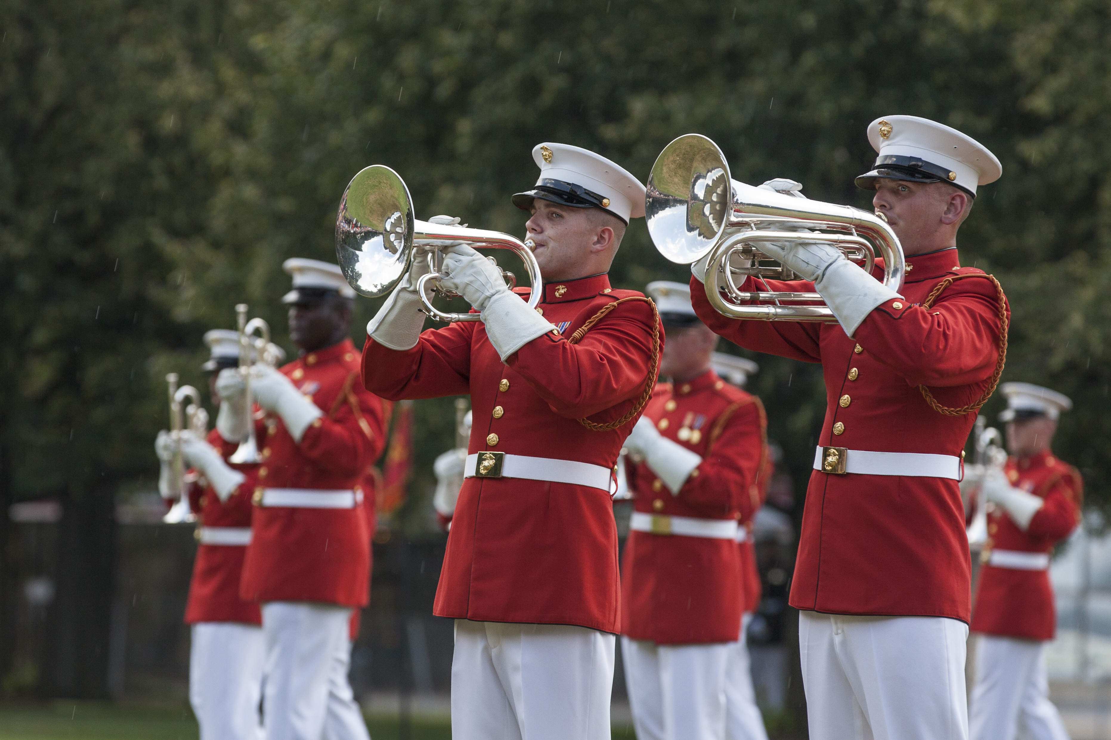 U.S. Marines with the Marine Corps Drum and Bugle Corps perform during a sunset parade at the Marine Corps War Memorial, Arlington, Va., July 28, 2015. U.S. Navy Adm. Harry B. Harris, U.S. Pacific Command, was the guest of honor for the parade, and Gen. John M. Paxton, assistant commandant of the Marine Corps, was the hosting official. Since September 1956, marching and musical units from Marine Barracks Washington, D.C., have been paying tribute to those whose “uncommon valor was a common virtue” by presenting sunset parades in the shadow of the 32-foot high figures of the United States Marine Corps War Memorial. (U.S. Marine Corps photo by Lance Cpl. Samantha K. Draughon/Released)